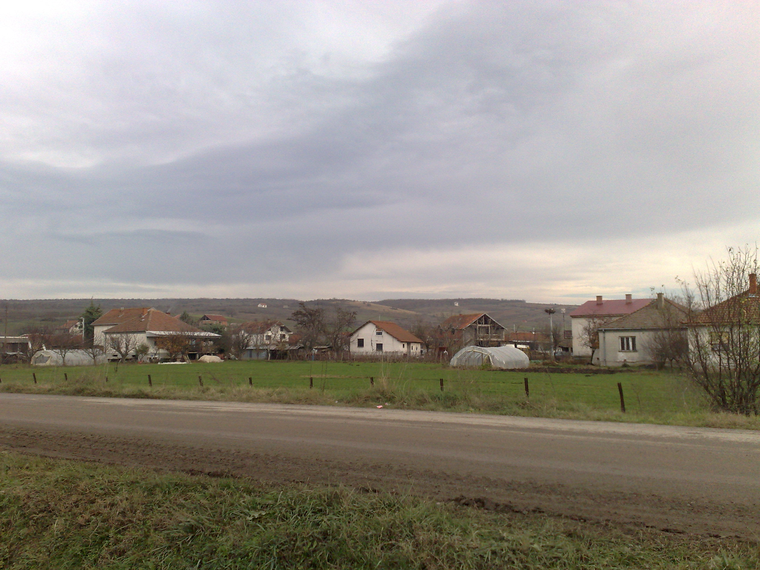 Village of Rzanicino, Macedonia